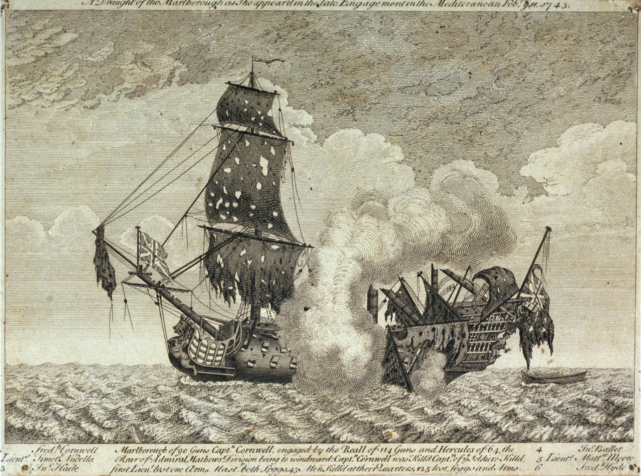 HMS Marlborough (90 guns) after fight at Toulon (1744). The ship was severely damaged by the Spanish Real (110 guns) and Hercules (64 guns). A draught of the Marlborough as she appeared in the late Engagement in the Mediterranean Febry. 11, 1743 Marlborough of 90 guns, Capt. Cornwell, engaged by the Reall of 114 guns and Hercules of 64, the Rear of Admiral Mathews Division being to windward: Capt. Cornwell was killed. Capt. of y. soldiers Killed, first Lieut lost one arm. Mastr. both Leggs. 45 Men killed at their quarters, 125 lost leggs and arms. Lieuts.: 1. Frederick Cornwell. 2. Timothy Nucella 3. Inc. Haile 4. Inc. Ballet. 5. Matthew Moore. 6. Frederick Hyde. (PAD5219) Repro ID: pu5219